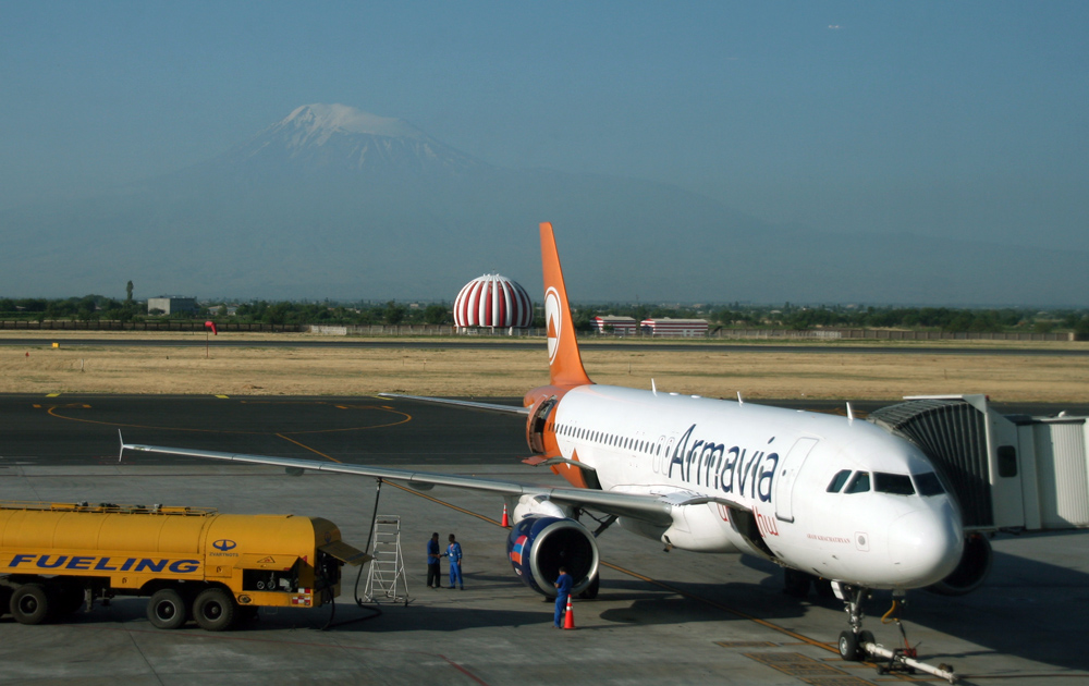 Armavia A319 at Zvartnots Airport